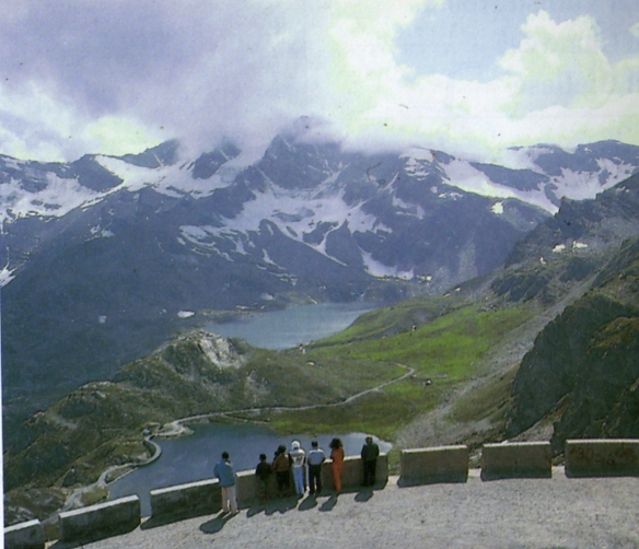 Lakes in Gran Paradiso national park